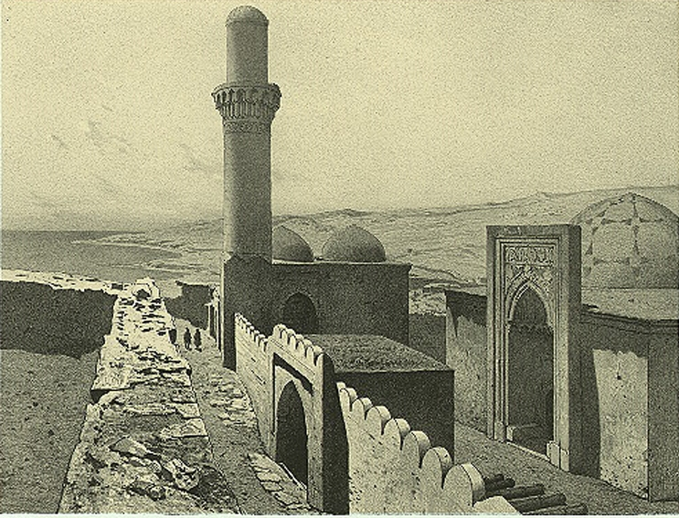 Absheron. Khan's Palace in Baku